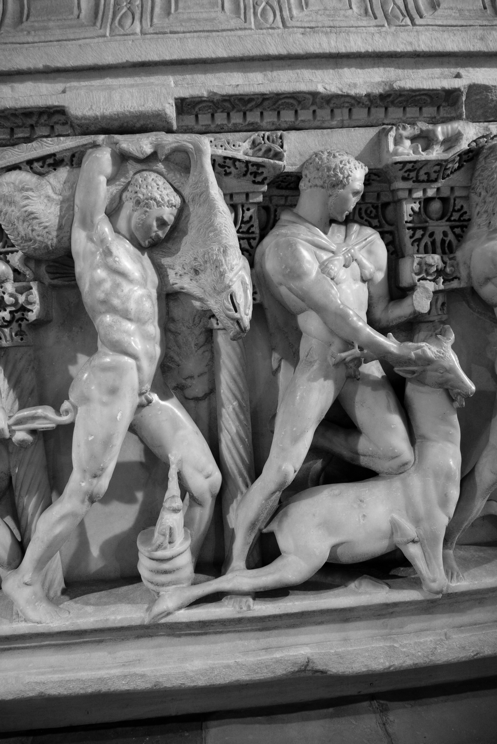 The marble sarcophagus of Hercules, typical of Sidamara. Roman period 250-260 AD. Found in Yunusular village (Pappa Tiberiopolis), near Beysehir.